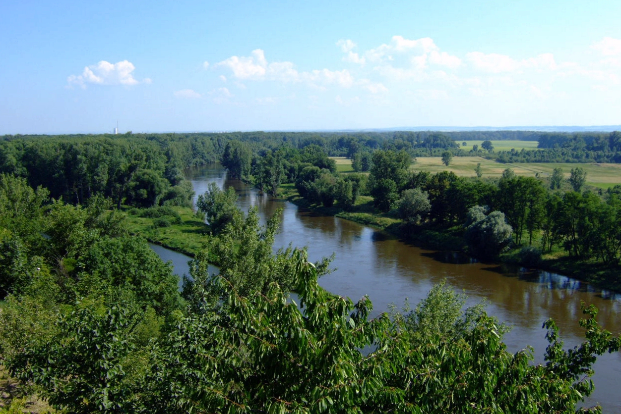 Confluence of the Elbe (left) and Vltava (centre) rivers as seen from Mělník. The floodplain forest between both rivers is protected as Úpor Nature Reserve. Town of Neratovice on the horizon is obscured by the forest. In the right the plain between the Vltava and its navigable lateral canal (out of sight). Aufnahme: 3. Juli 2006 Url